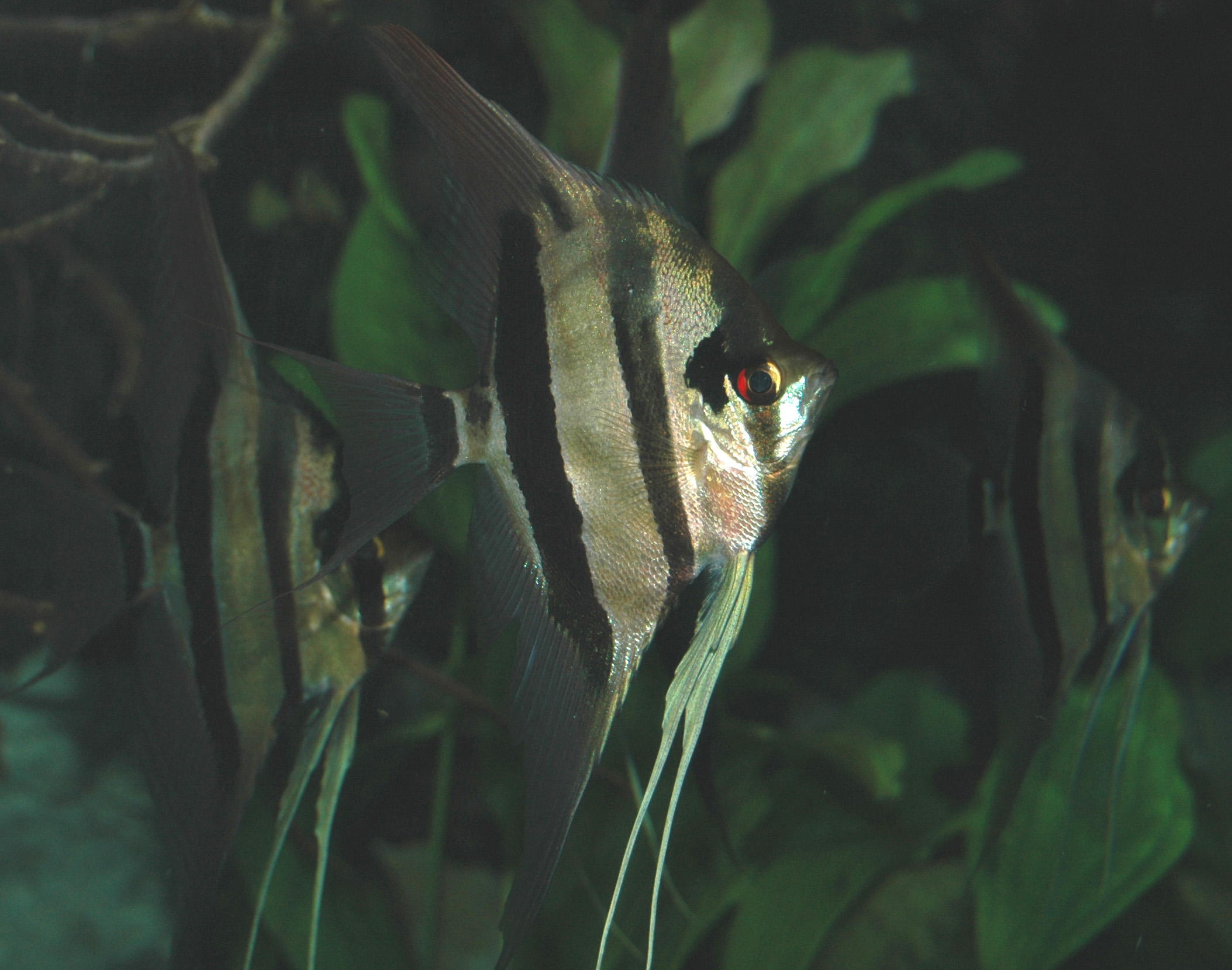 Pterophyllum scalare (Lichtenstein, 1823) - freshwater angelfish from the Rio Negro drainage basin of northern Brazil (captives, Newport Aquarium, Newport, Kentucky, USA). This is not the “angelfish” that most people have heard about. Most angelfish (or angels) are marine fish related to & in the same family as the butterfly fish (Family Chaetodontidae). However, the freshwater angelfish shown here is somewhat similar to the overall body form of marine angelfish ( This is Pterophyllum scalare, a cichlid fish (Family Cichlidae). Cichlids are quite variable in body form, but Pterophyllum is unusual even for a cichlid. Garden-variety fish have an elongated, fusiform body (for example, tuna - Pterophyllum has a laterally compressed and anteriorly-posteriorly truncated body. Marine angelfish also have laterally compressed bodies, but are less truncated. The body form of Pterophyllum is often seen in fish inhabiting low-energy, freshwater settings having moderately thick aquatic vegetation. Classification: Animalia, Chordata, Vertebrata, Osteichthyes, Actinopterygii, Teleostei, Perciformes, Labroidei, Cichlidae Some info. from Lagler et al. (1962) and Herald (1962).